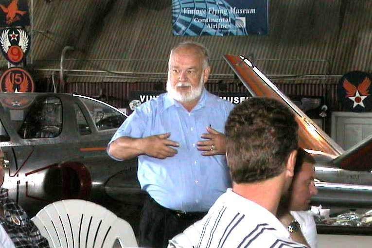 Picture of aircraft designer Jim Bede at the BD-5 Expo 2000, held at the Vintage Flying Museum at Meacham Field, Fort Worth, Texas. Picture uploaded by copyright owner and photographer, Juan Jimenez. All rights released to public domain.